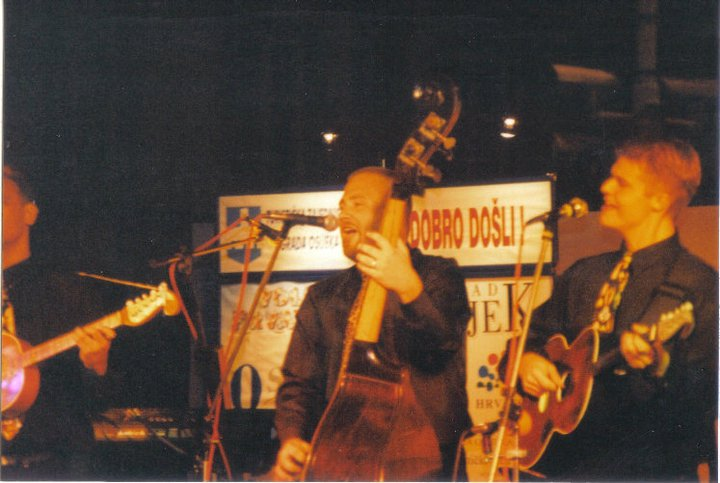 Dalibor Stanarevic, Igor Milic, Boris Kiraly